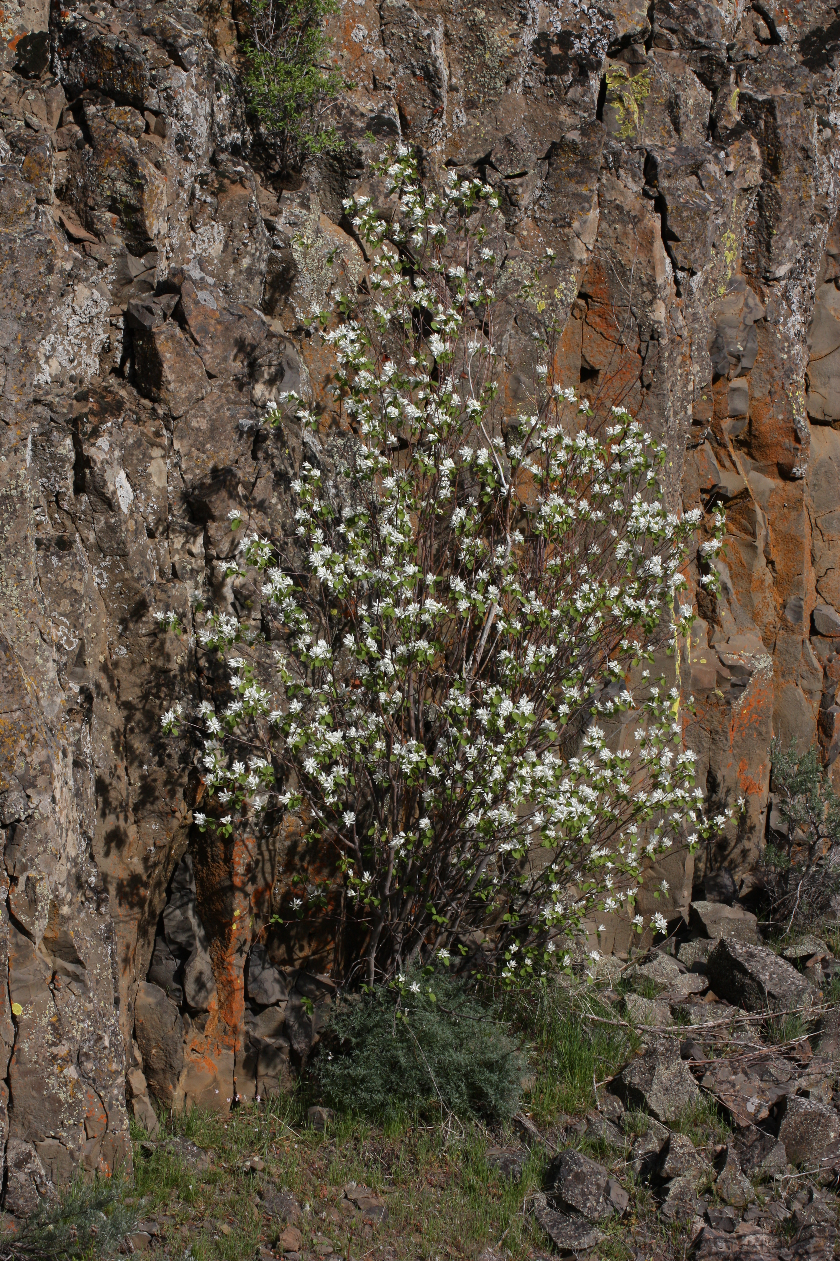 Saskatoon Serviceberry, Western Serviceberry